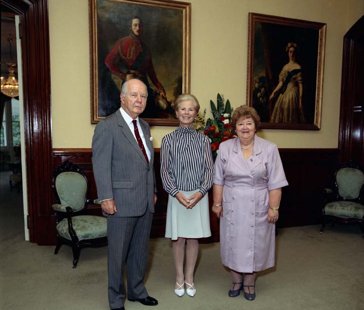 Queensland State Archives Digital Image ID 8000